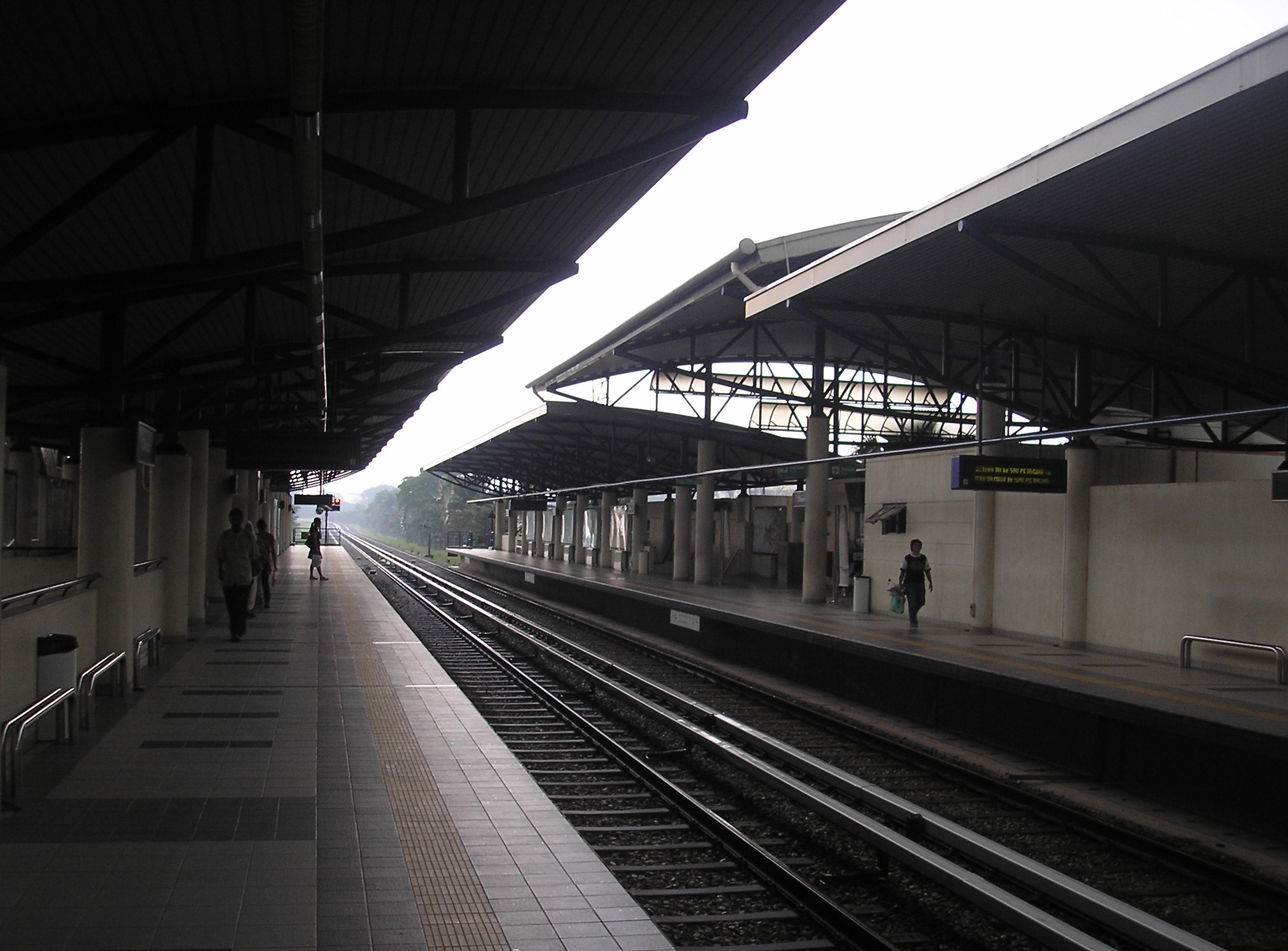 A platform view (towards the Sentul Timur) of the Cheras station (Ampang Line, Sentul Timur-Sri Petaling route), in the Sungai Besi-Taman Ikan Emas border, Kuala Lumpur, Malaysia.